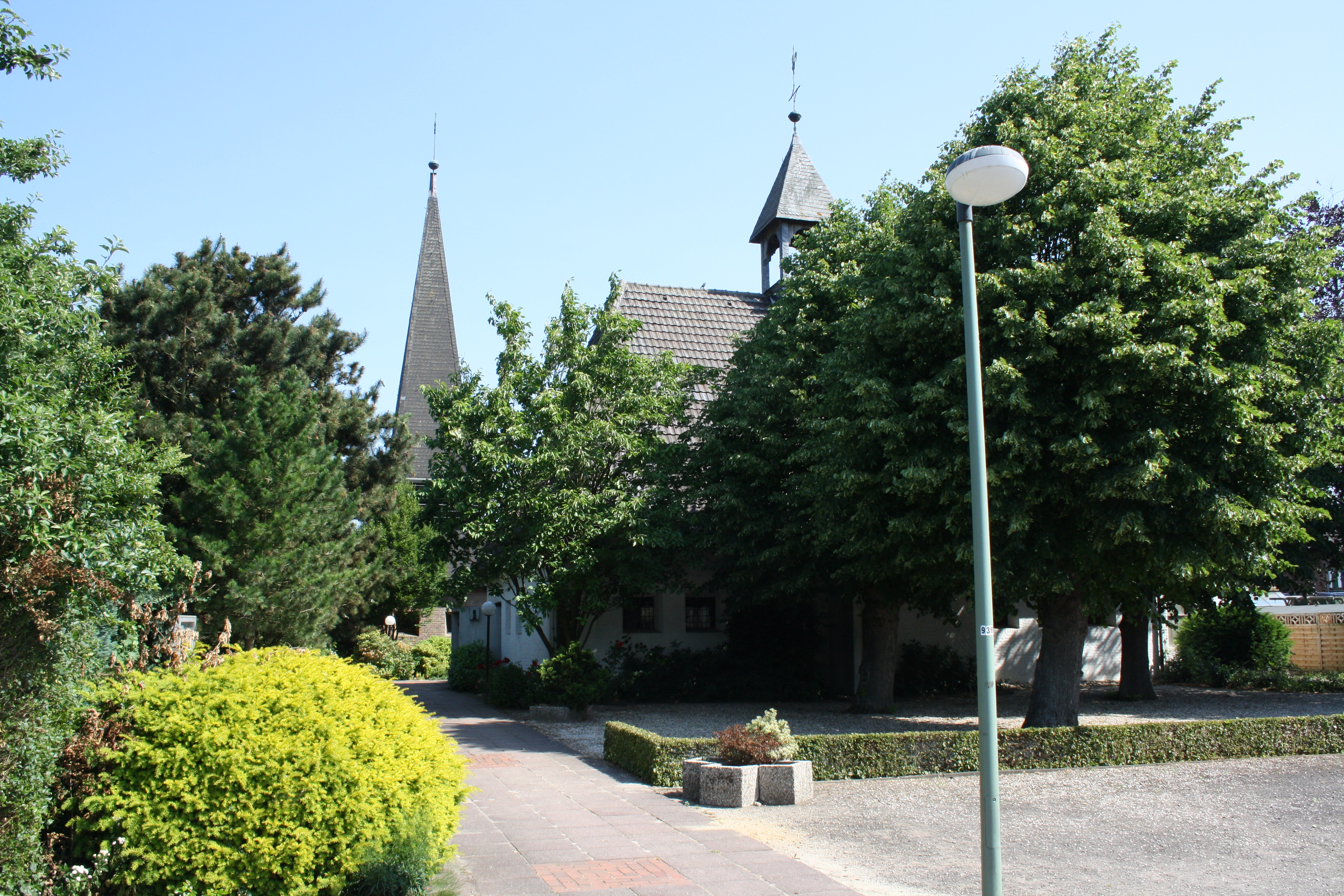 St. Willibrordus church in Goch-Hassum, North Rhine-Westphalia, Germany